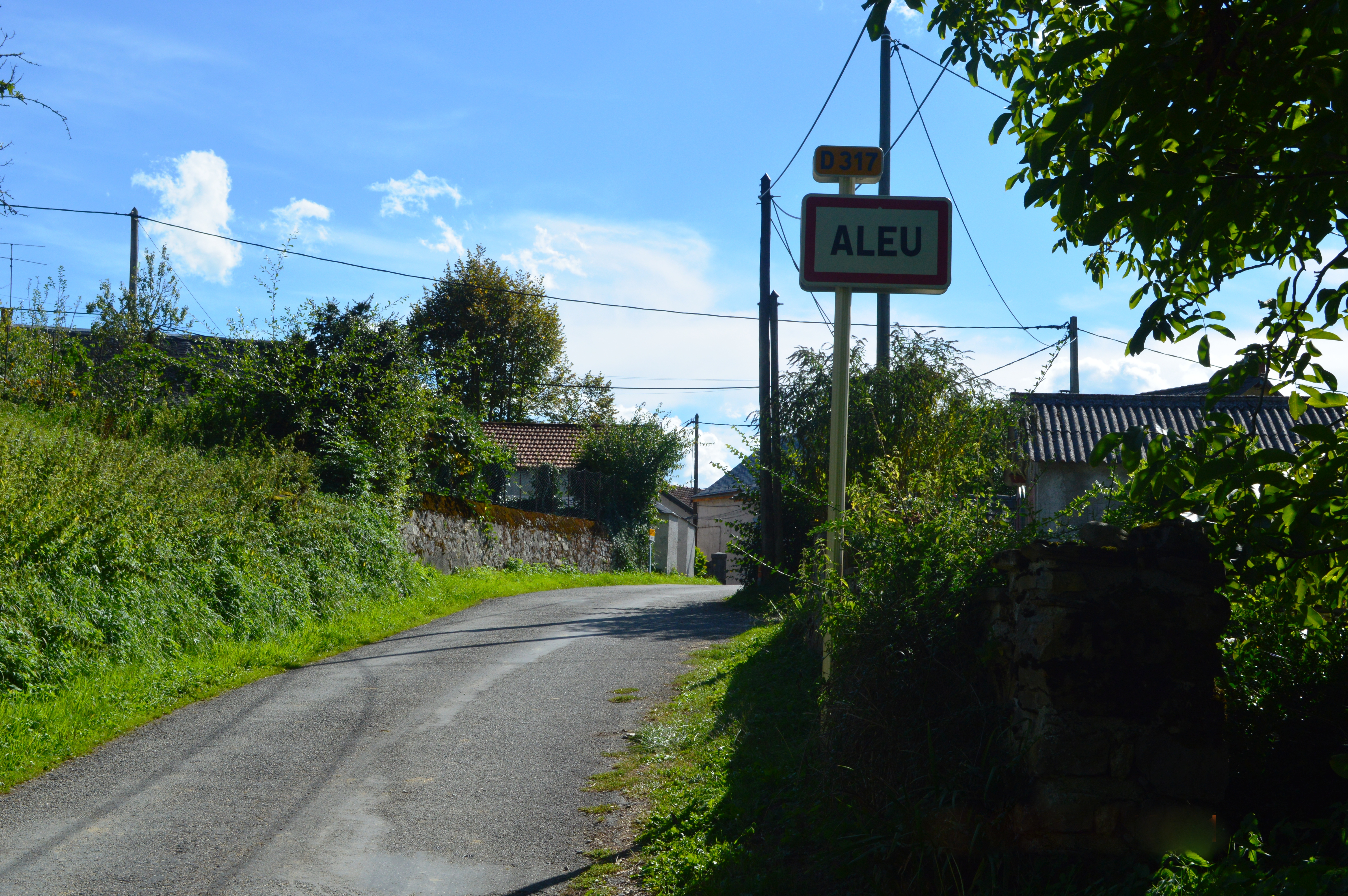 The Entry to Aleu